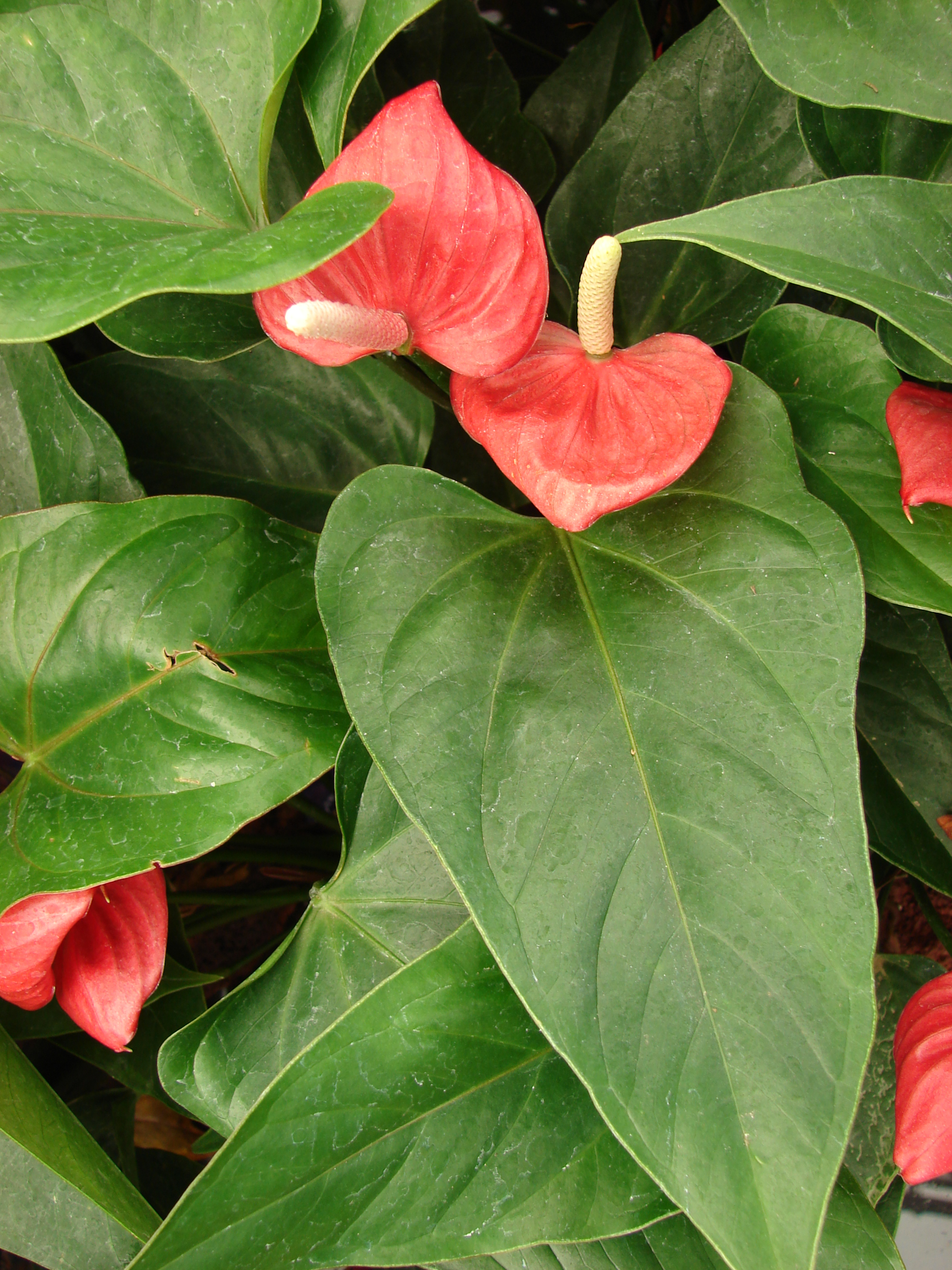 Anthurium andraeanum (flowering habit). Location: Maui, Walmart Kahului